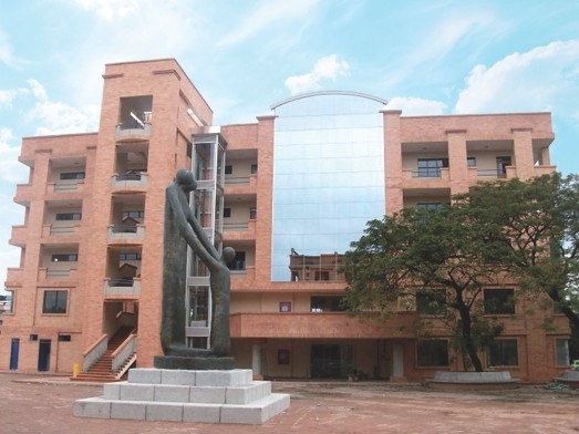 University of Santander UDES